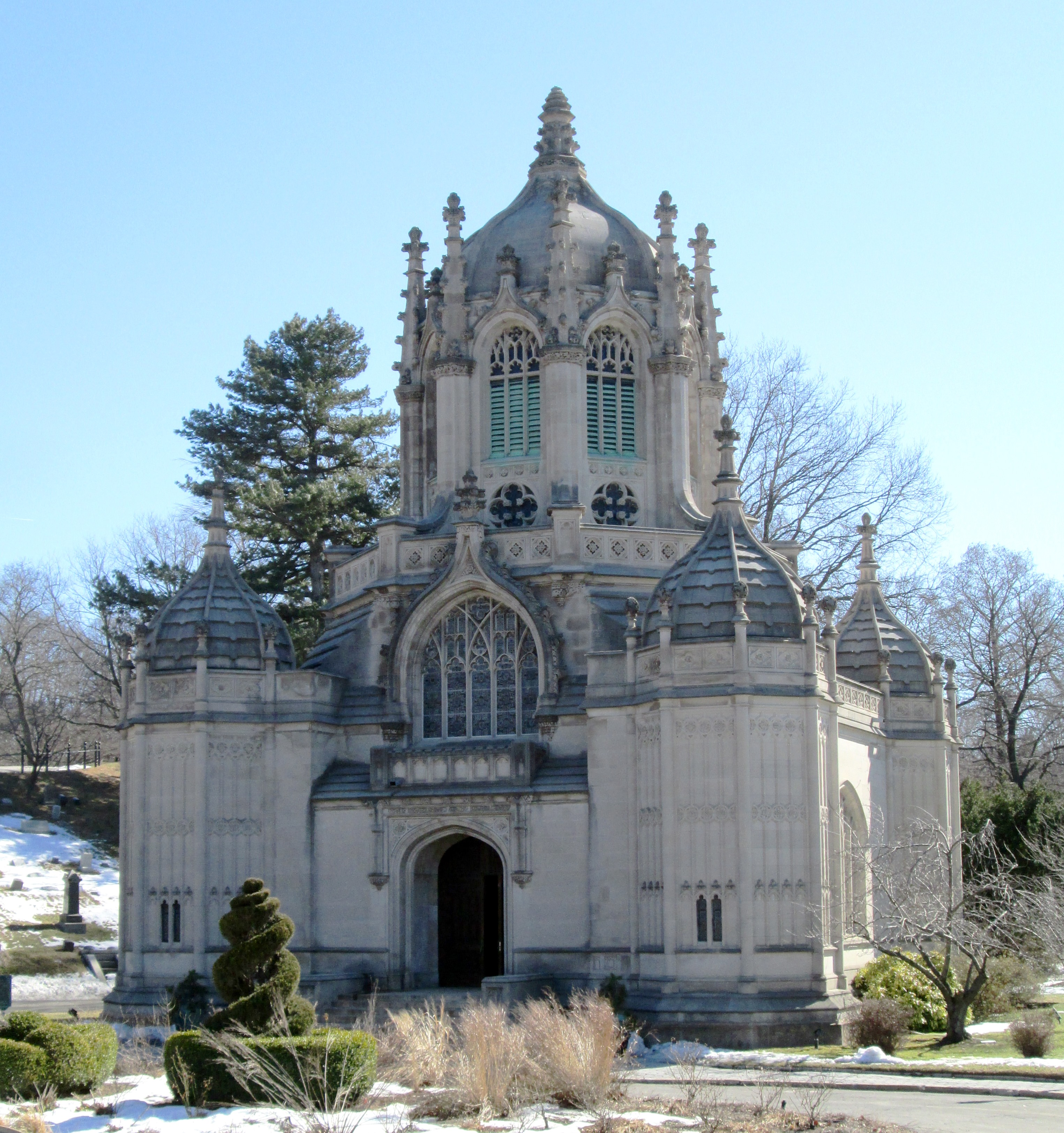 Green-Wood Chapel in Green-Wood Cemetery in Brooklyn, New York City was built in 1911 and was designed by Warren and Wetmore in the Gothic Revival style. Its design is a sized-down version of Christopher Wren’s Thomas Tower at Christ Church College, Oxford, England. The chapel was closed from the 1980s to 2000, and underwent a renovation in 2001. {Sources: [1] and [2])